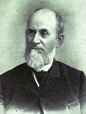 Photo of William W. Blair an apostle and a member of the First Presidency of the Reoganized Church of Jesus Christ of Latter Day Saints (now known as the Community of Christ).